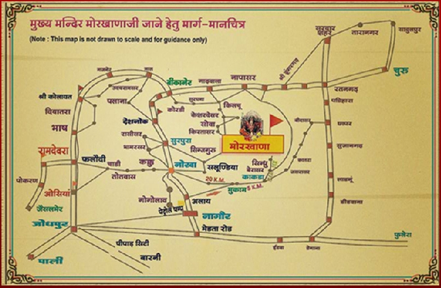 मोरखाना कार्यालय फ़ोन न - 01531-211400